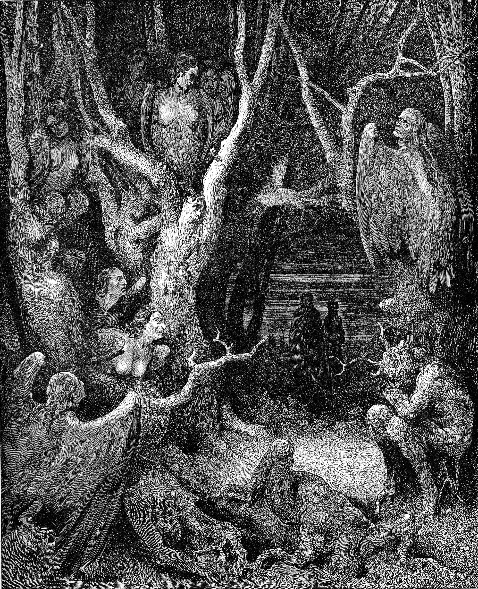 High resolution scan of engraving by Gustave Doré illustrating Canto XIII of Divine Comedy, Inferno, by Dante Alighieri. Caption: Harpies in the Forest of Suicides